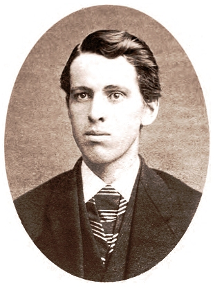 Joseph Ney Babson (1852-1929), American chess problemist, mainly known for the "Babson task"